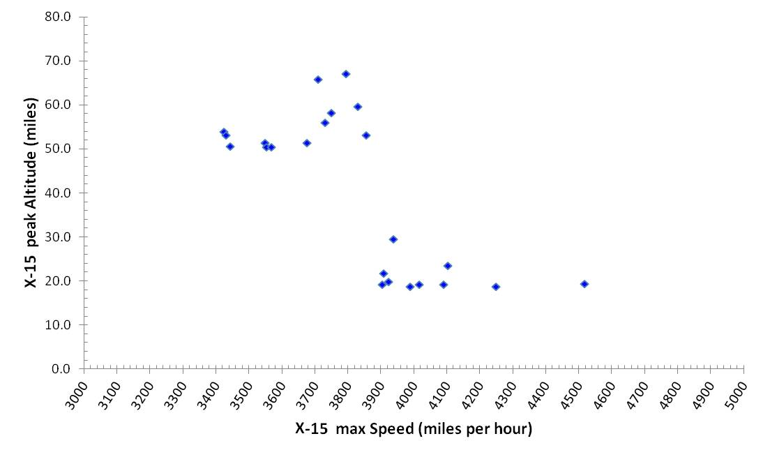 Key speed and altitude milestones of the North American X-15.